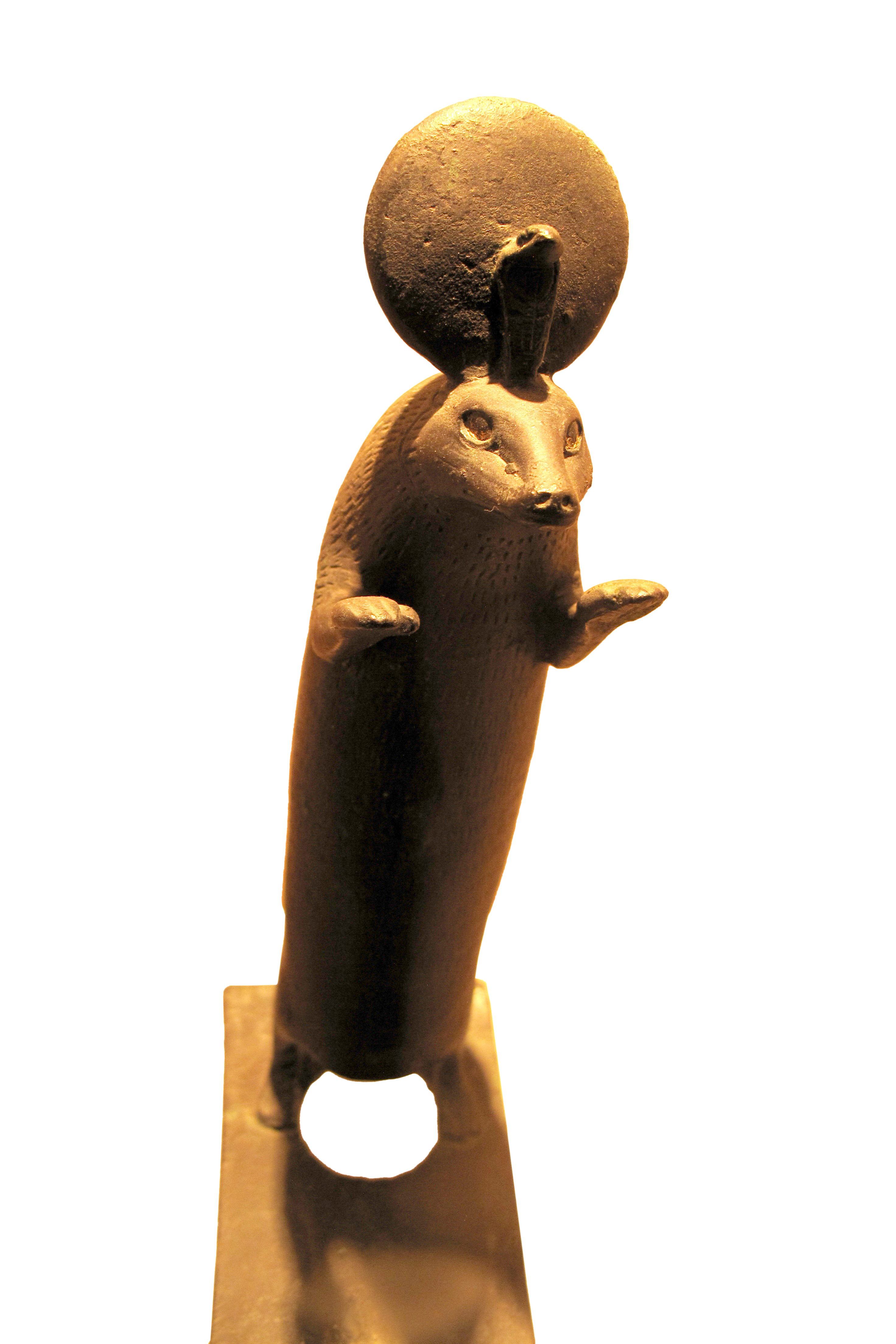 Standing Herpestes ichneumon, with uraeus and solar disc. Bronze, Ptolemaic era.